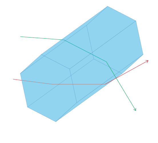 Passing of rays through horizontally oriented column ice crystal. This rays form upper (green ray) and lower (red ray) tangent arcs.